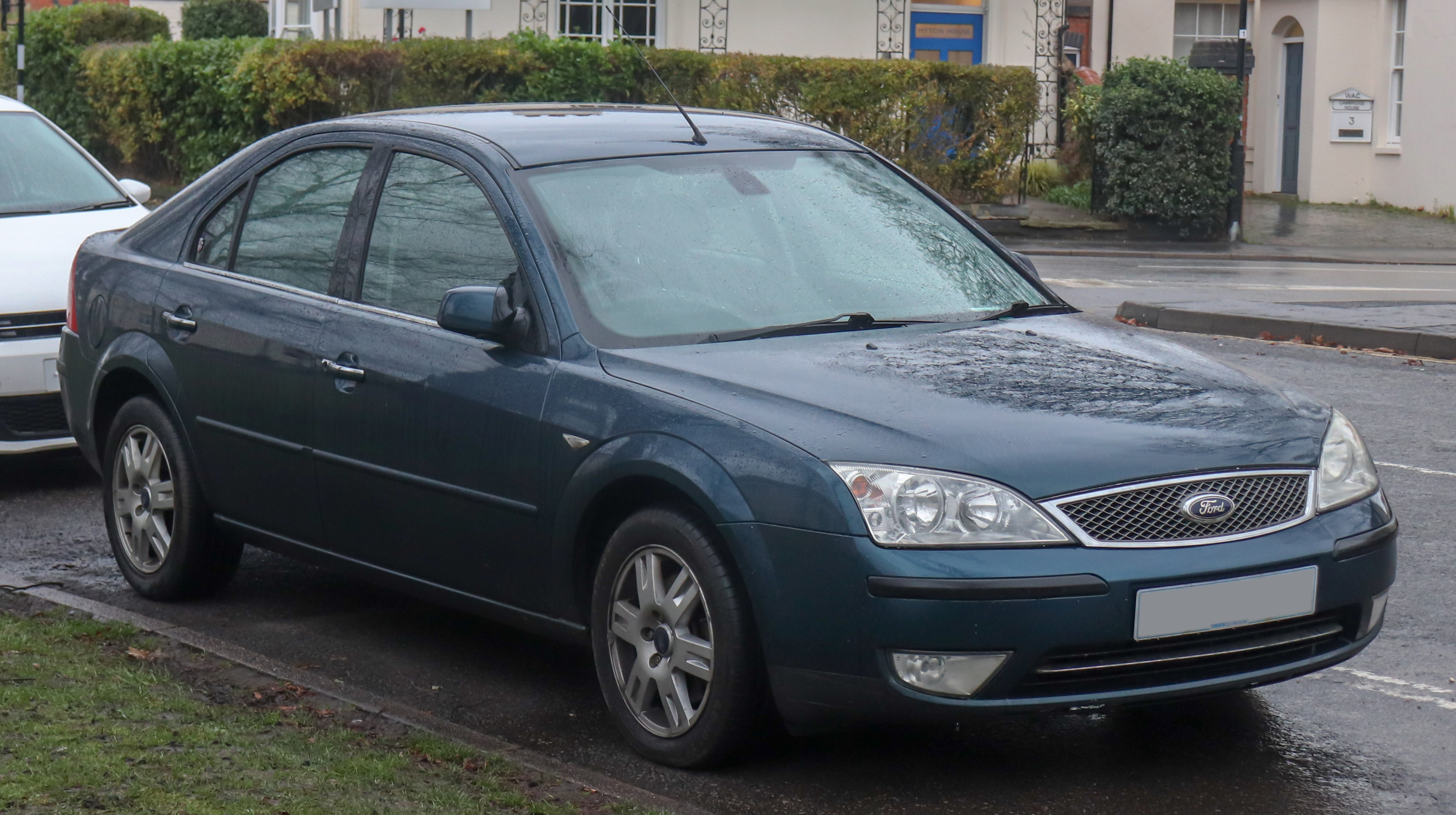 2003 Ford Mondeo Ghia 2.0 Front Taken in Leamington Spa